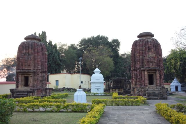 Ramnath Temple - Boudh, Orissa, India